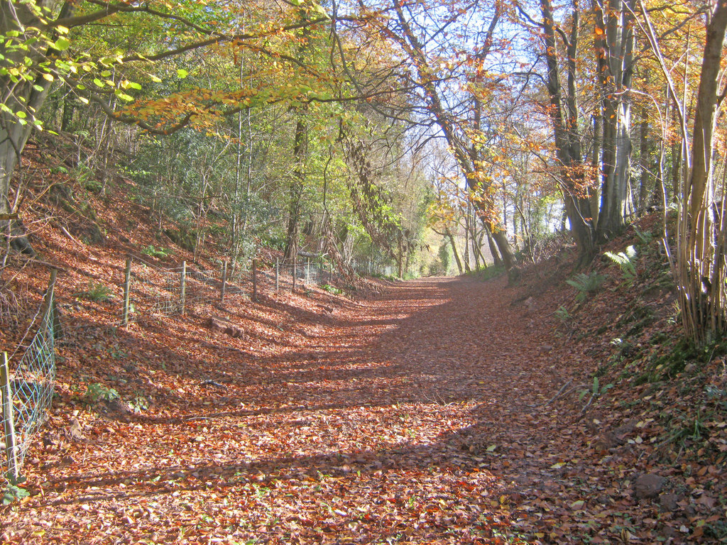 Monmouth Tramroad, Wales